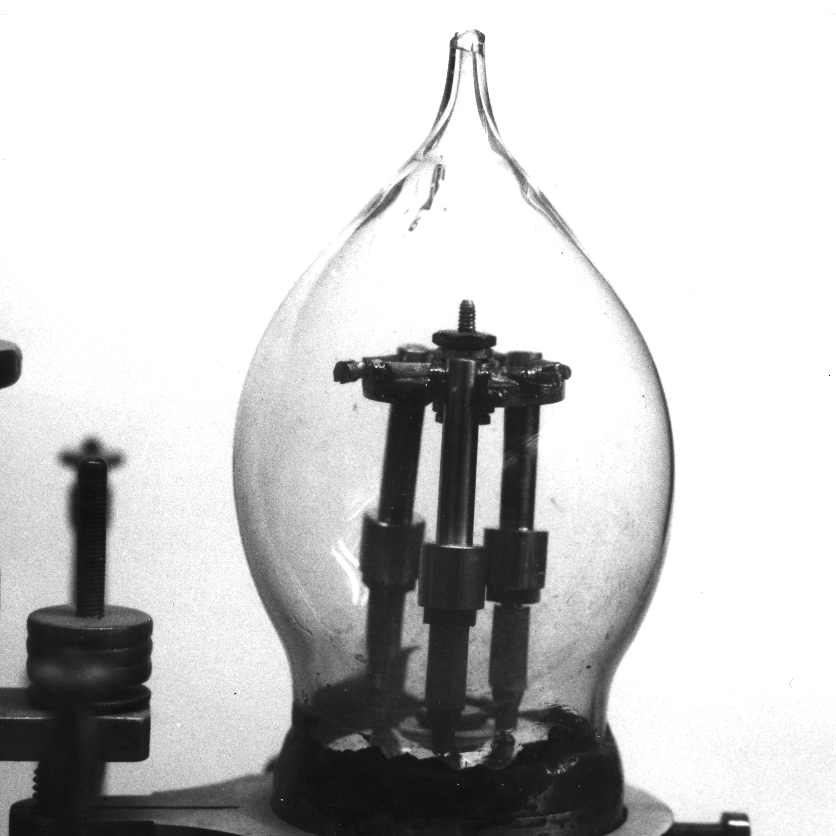 A tripod coherer, an experimental radio wave detector invented in 1902 by French radio researcher Édouard Branly . Coherers were used in the first radio receivers around 1900. In this device the radio signal from an antenna was applied between the metal 'tripod' and the bottom plate. Although most coherers functioned as "switches", turning on a DC current from a battery to record the radio signal, the tripod coherer may have been one of the first rectifying (diode) detectors, because Branly reported it could produce a DC signal without a battery. The imperfect contact between the rounded metal legs, which had a slight semiconducting coating of iron oxide on them, and the iron plate at the bottom of the glass bulb, functioned as a crude PN junction, rectifying the radio waves. The rectified signal was applied to an earphone connected across the plates, and the "dots" and "dashes" of the Morse code transmitter could be heard. This made it one of the first semiconductor devices, a predecessor to the crystal detector and the semiconductor diode (See E. Branly (1902) "A Sensitive Coherer", Comptes Rendes, Vol. 134, p. 1197. Information from John Ambrose Fleming (1919) The Principles of Electric Wave Telegraphy and Telephony, 4th Ed., London, Longmans, Green & Co. p.374)